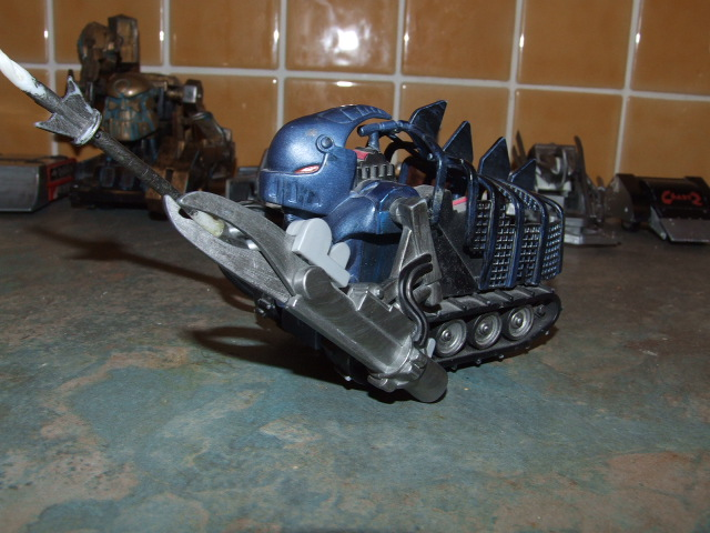 Mean as hell.